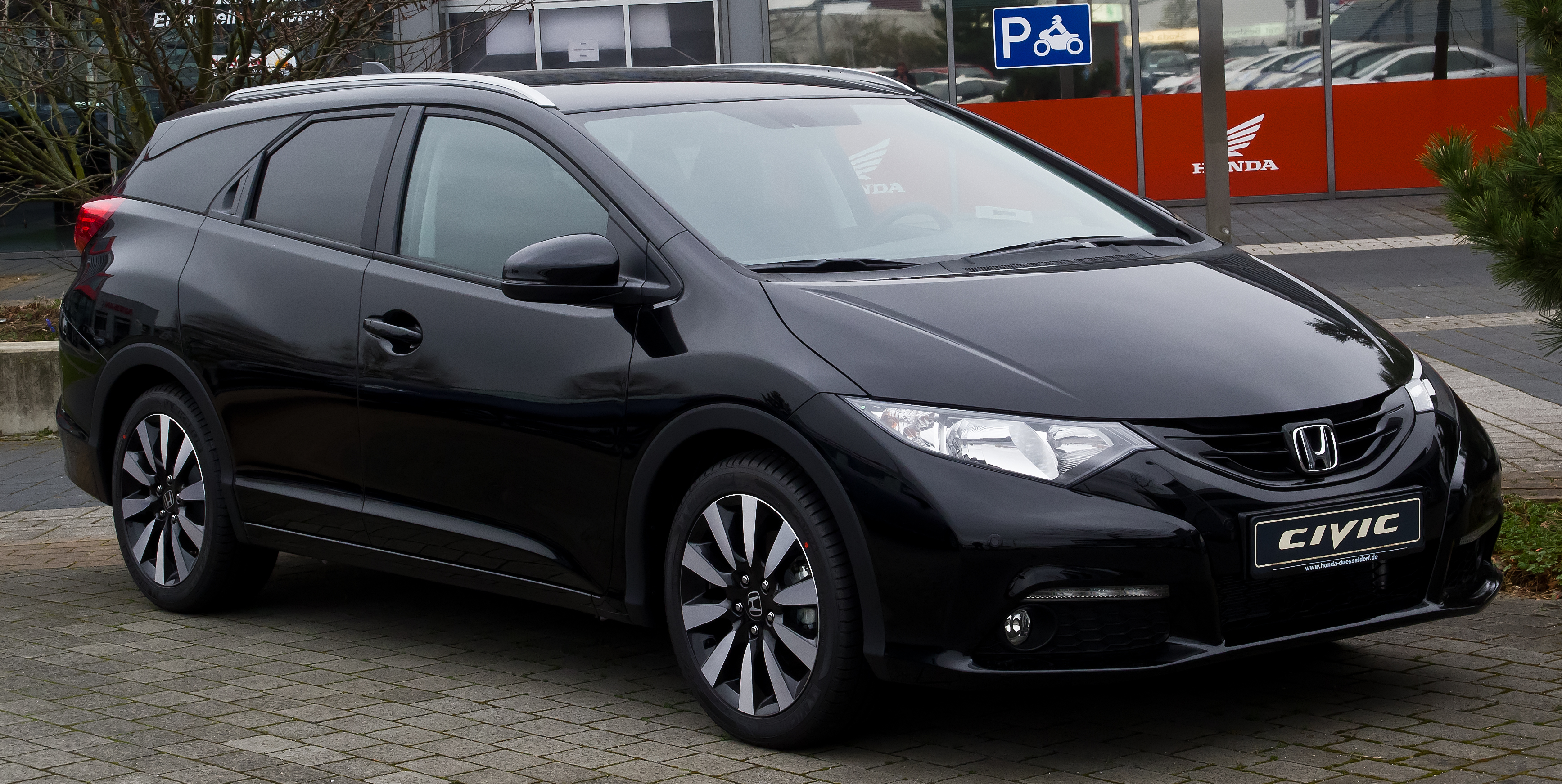 Honda Civic Tourer (IX)